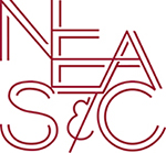 NEASC logo JPG